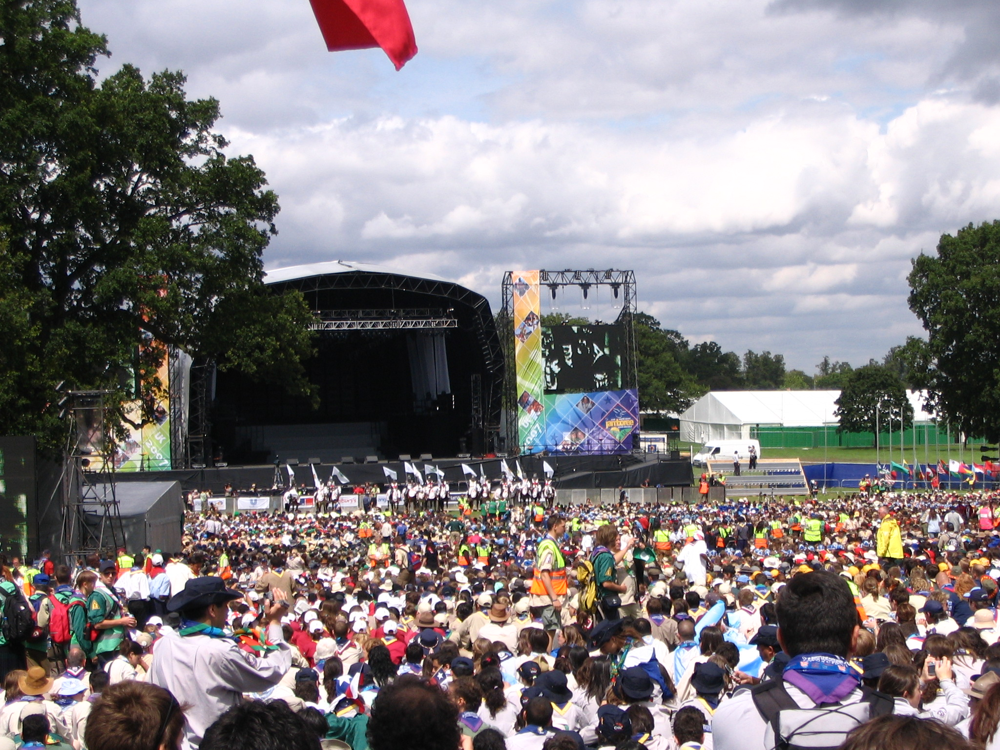 Some of the 40,000 scouts who were in the "Arena" a few minutes before 2007 World Scout Jamboree's Opening Ceremony